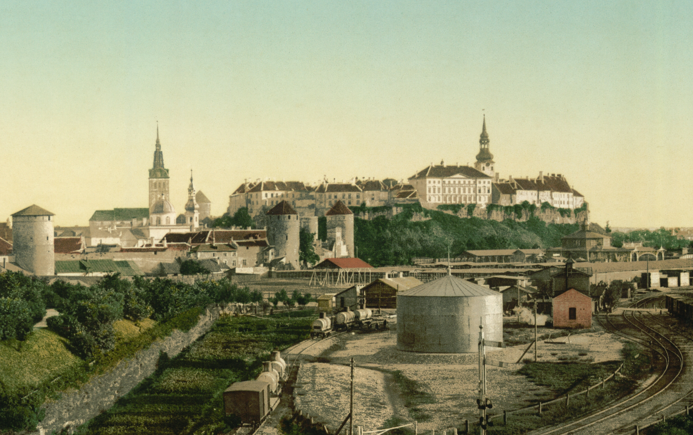 View of Toompea in the end of 19th century. Photochrom print.